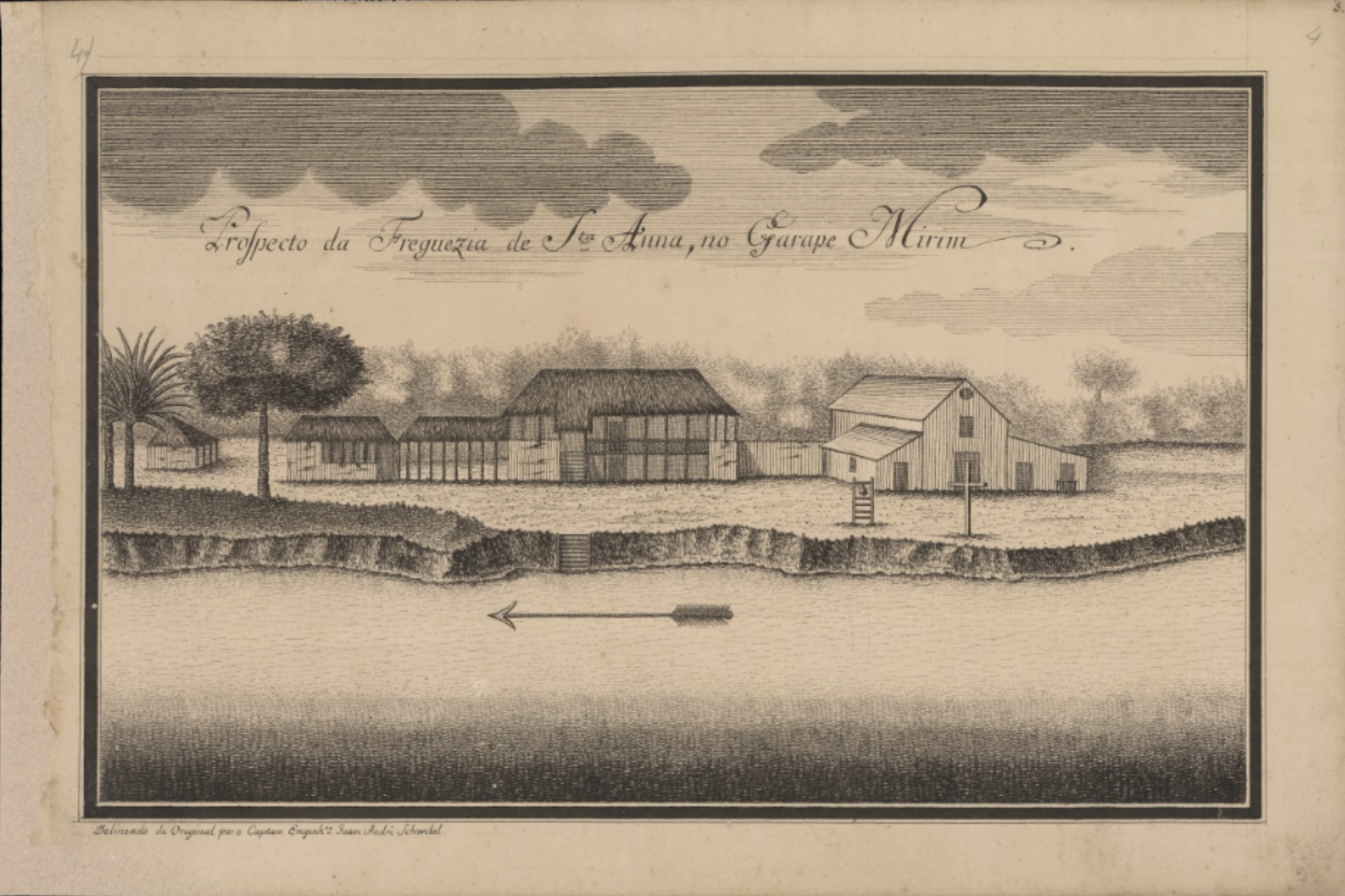 View of the Parish of Igarapé-Mirim. In the Collection from the prospects of the villages, and more remarkable places that are found on the map that the engineers created on expedition starting from the city of Pará to the village of Mariua in the Rio Negro, 1756. Drawing in Indian ink by João André (Johann Andreas) Schwebel. He was a German military engineer and was hired by the Portuguese Crown to be part of the Commission of border demarcations in the northern region of Brazil according to the Treaty of Madrid (1750). The Portuguese commission stayed for five years conducting surveying and hydrographic services in this region. This view, together with the others in this group, constitute an iconographic collection of the region between Belém and Barcelos during the colonial period. Collection of the Biblioteca Nacional do Brasil.